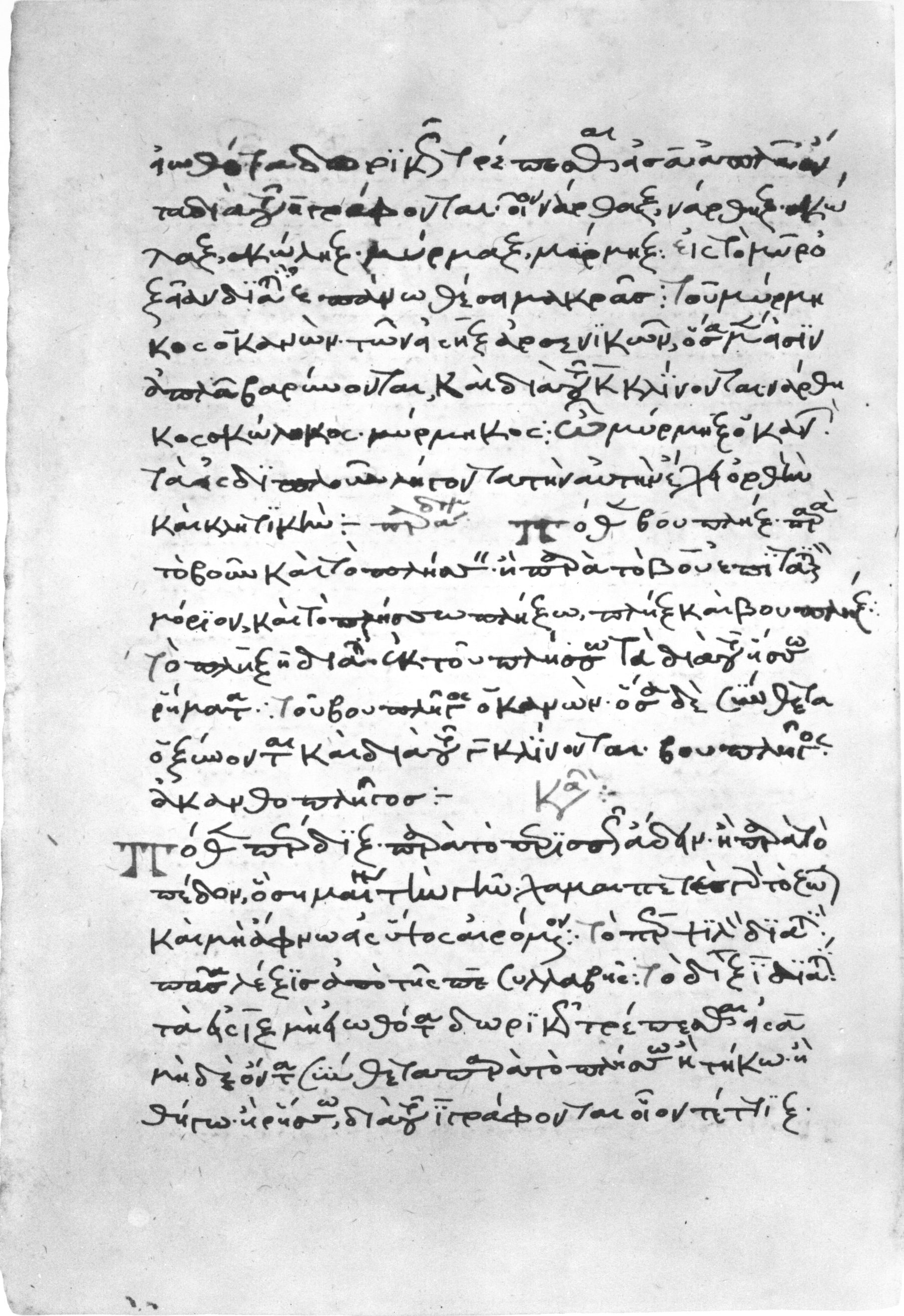 Manuel Moschopoulos, Erotemata grammatica, in ms. Florence, Biblioteca Medicea Laurenziana, Plut. 28,24, fol. 57v.